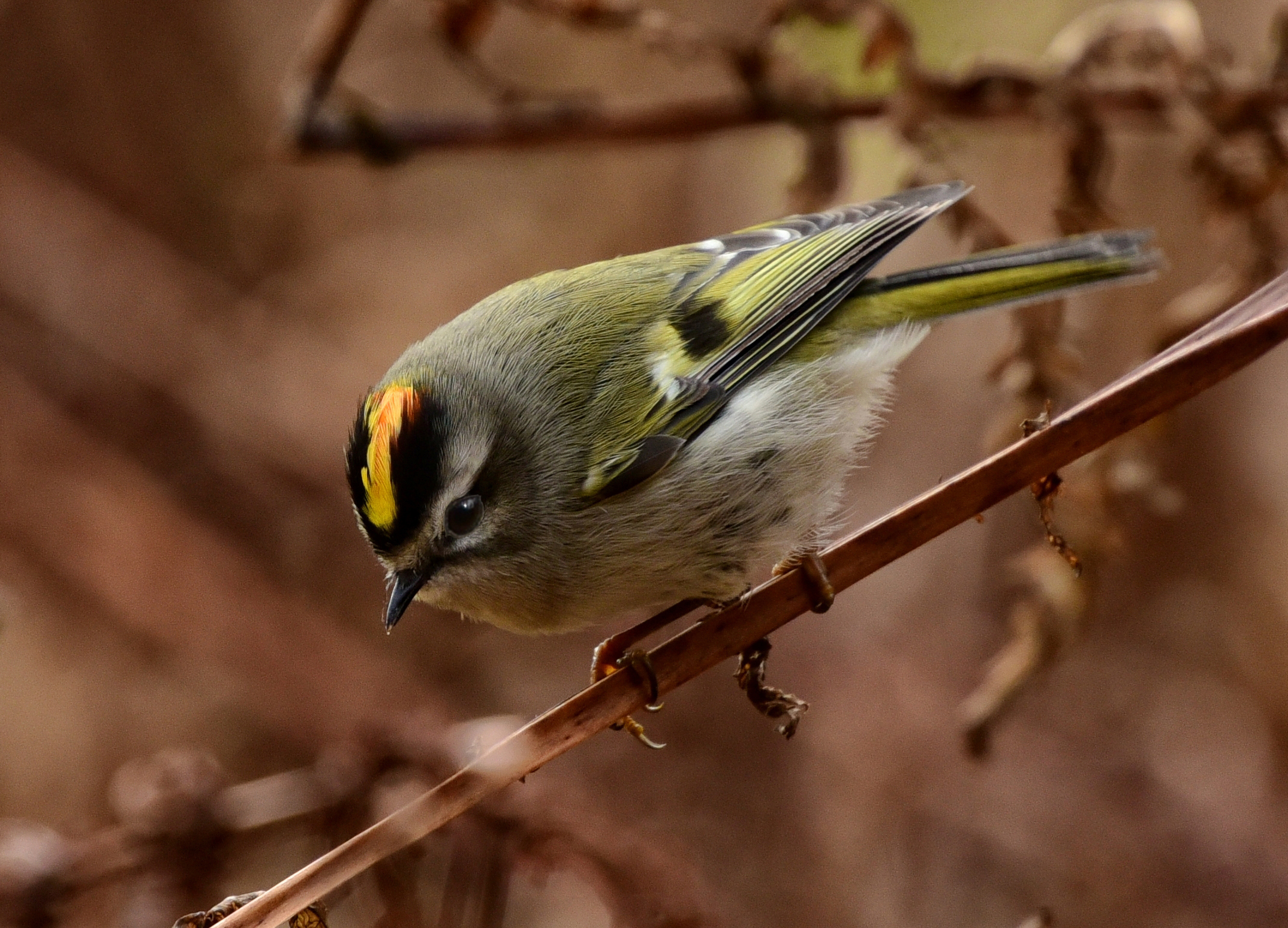 Male golden-crowned kinglet (Regulus satrapa) in Stoney Island Conservation Area near Kincardine, Ontario, Canada